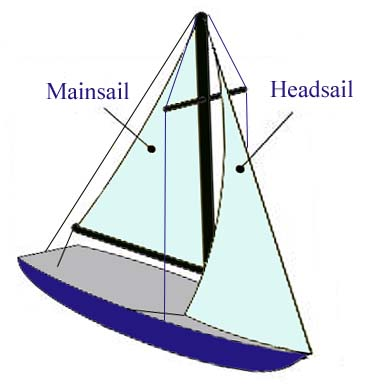 Sails of a bermuda rigged sloop. language neutral version: image:Sloop Example language free.jpg